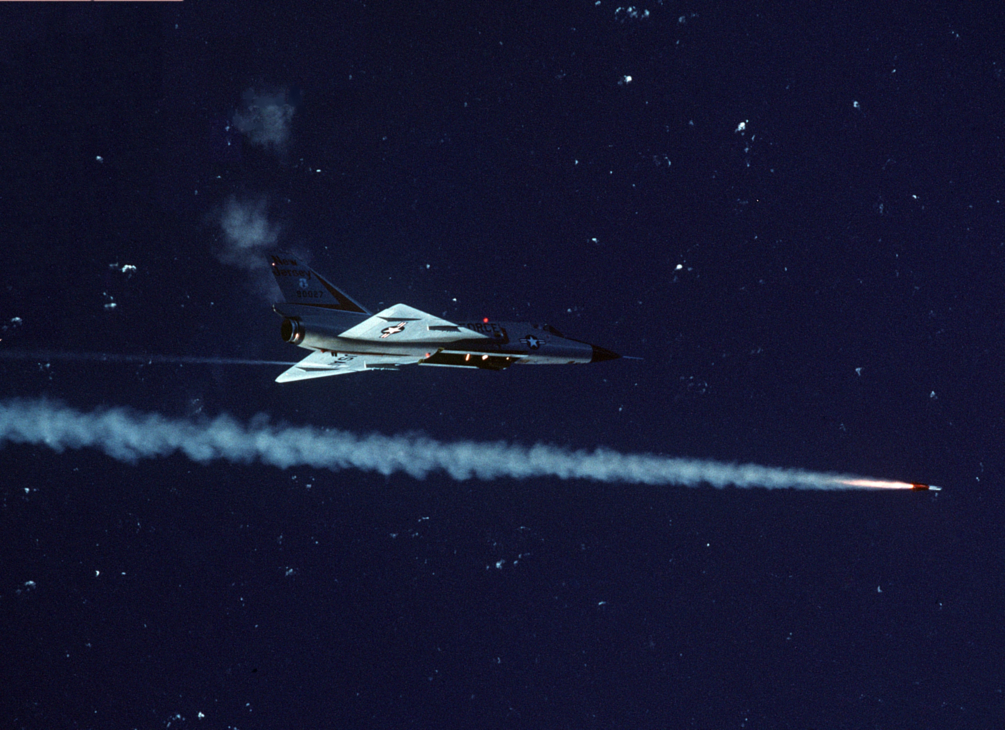 A U.S. Air Force Convair F-106A-105-CO Delta Dart aircraft (s/n 59-0027) from the 119th Fighter Interceptor Squadron, 177th Fighter Interceptor Group, New Jersey Air National Guard, firing an AIM-4 Falcon missile during the air-to-air weapons meet "William Tell '84" in October 1984.